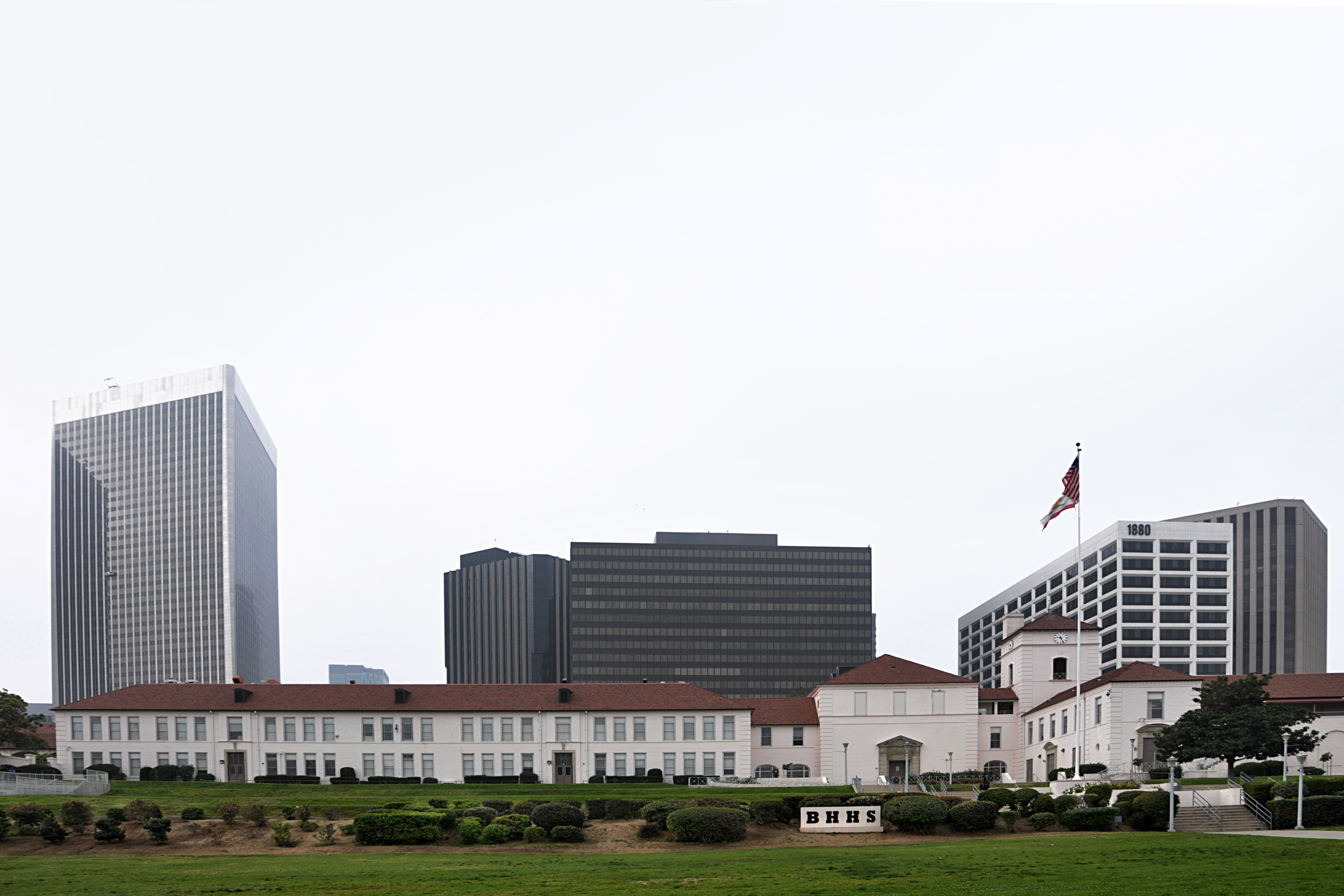 Beverly Hills High School, Beverly Hills, California - Photo by Glenn Francis of